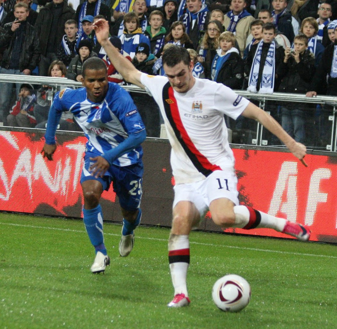 Adam Johnson and Luis Henríquez